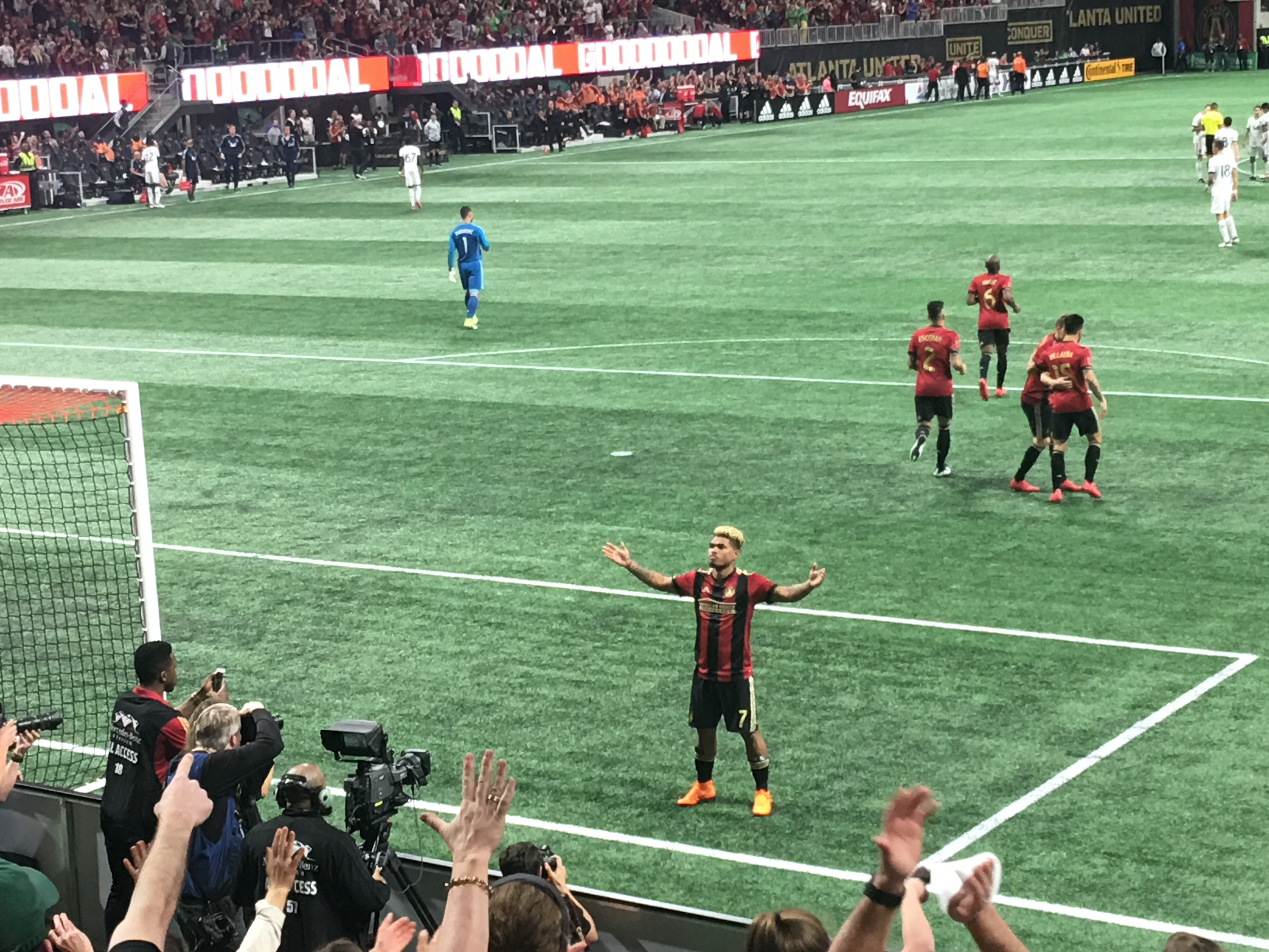 2018-03-17 - Atlanta United vs Vancouver Whitecaps